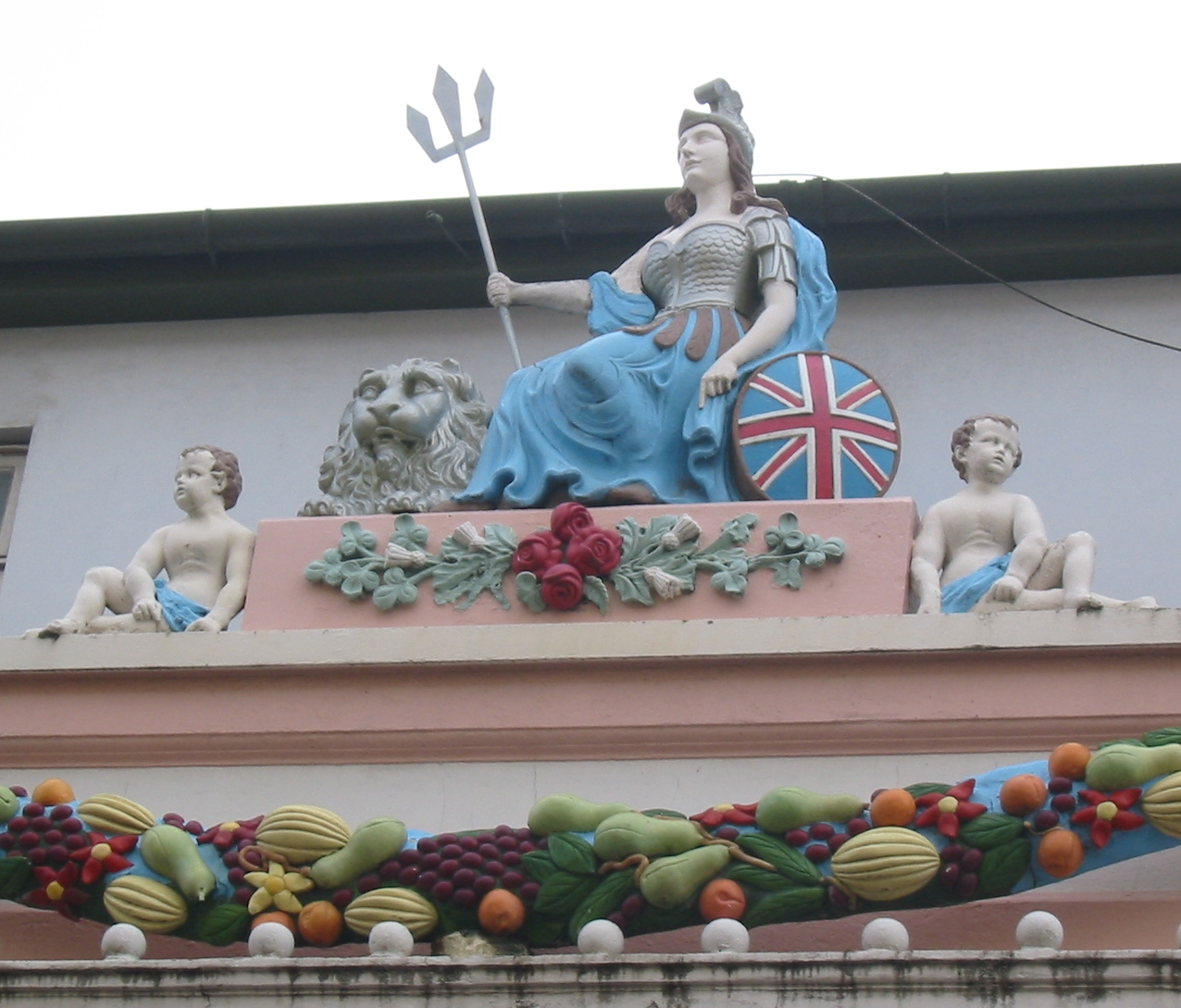 Sculpture of Britannia by Jean Philippe "Turnkey" Giffard (1826-1892) on pub "The Grapes" / "La Grappe de Verjus" (now "The Lamplighter") in St. Helier, Jersey